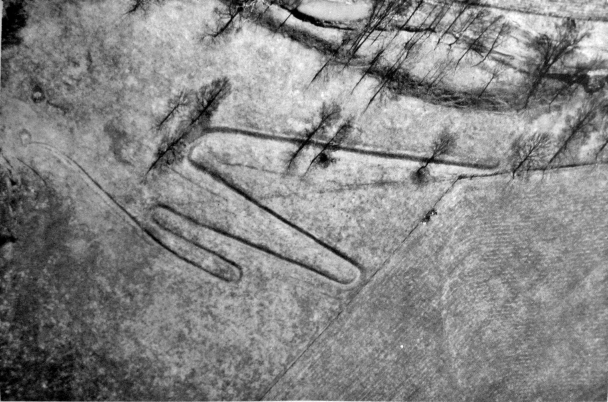 Aerial view of the Stubbs Earthworks, also known as the "Warren County Serpent Mound", which was formerly located on the southern side of the Little Miami River near Morrow in Washington Township, Warren County, Ohio, United States. Built by the prehistoric Hopewell culture, it is listed on the National Register of Historic Places, although most of the site has been destroyed by quarrying.